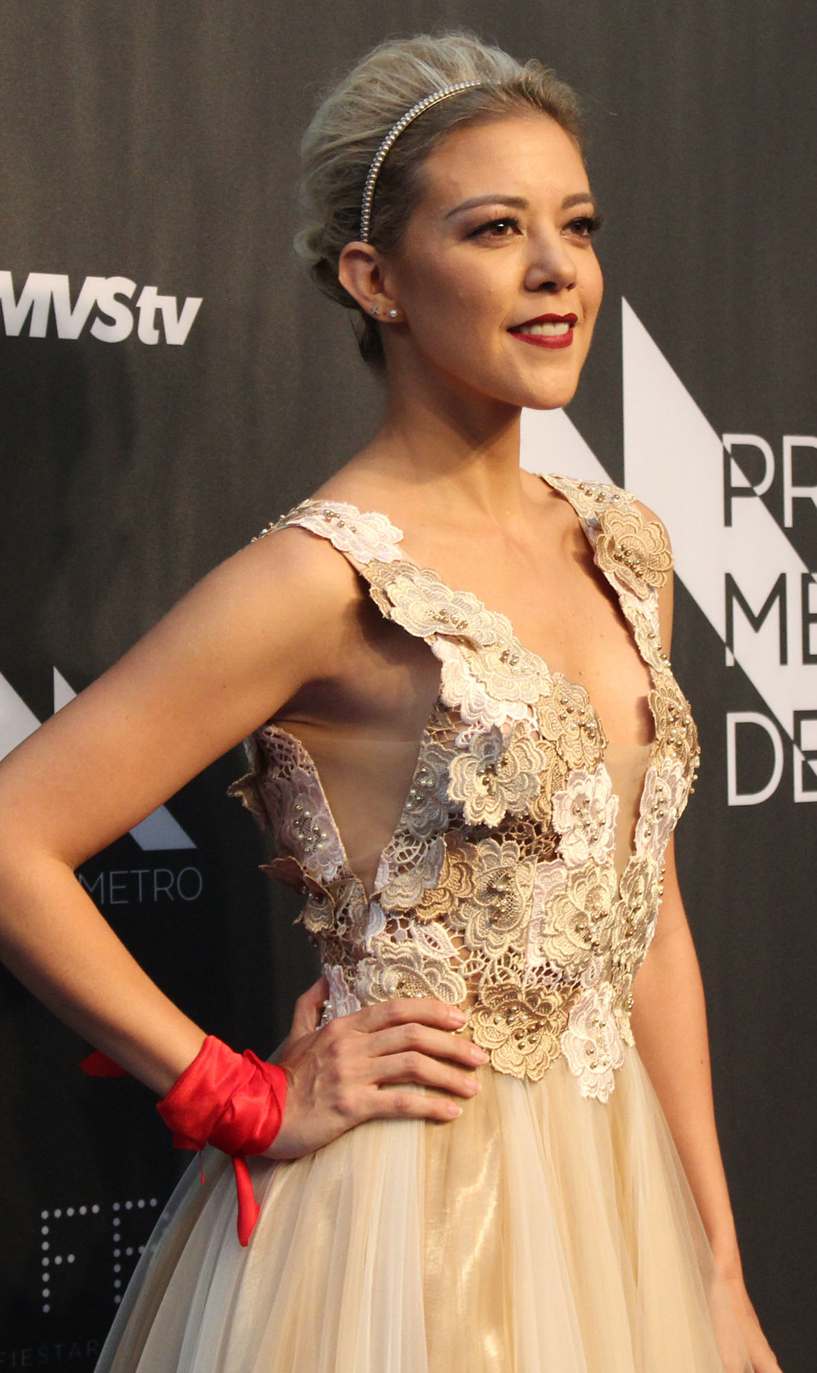 Fernanda Castillo at the 2019 Metropolitan Theather Awards